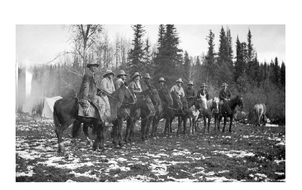 Bedaux Expedition cowboys. The Bedaux Expedition was an attempt in 1934 by eccentric French millionaire, Charles Eugène Bedaux to cross the Alberta and British Columbia wilderness, while making a movie, testing Citroën half-tracks and generating publicity for himself.